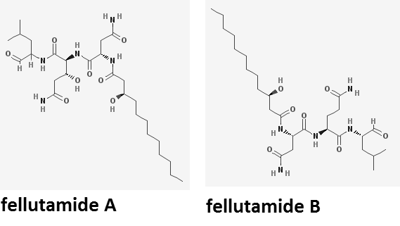 Fellutamide A&B